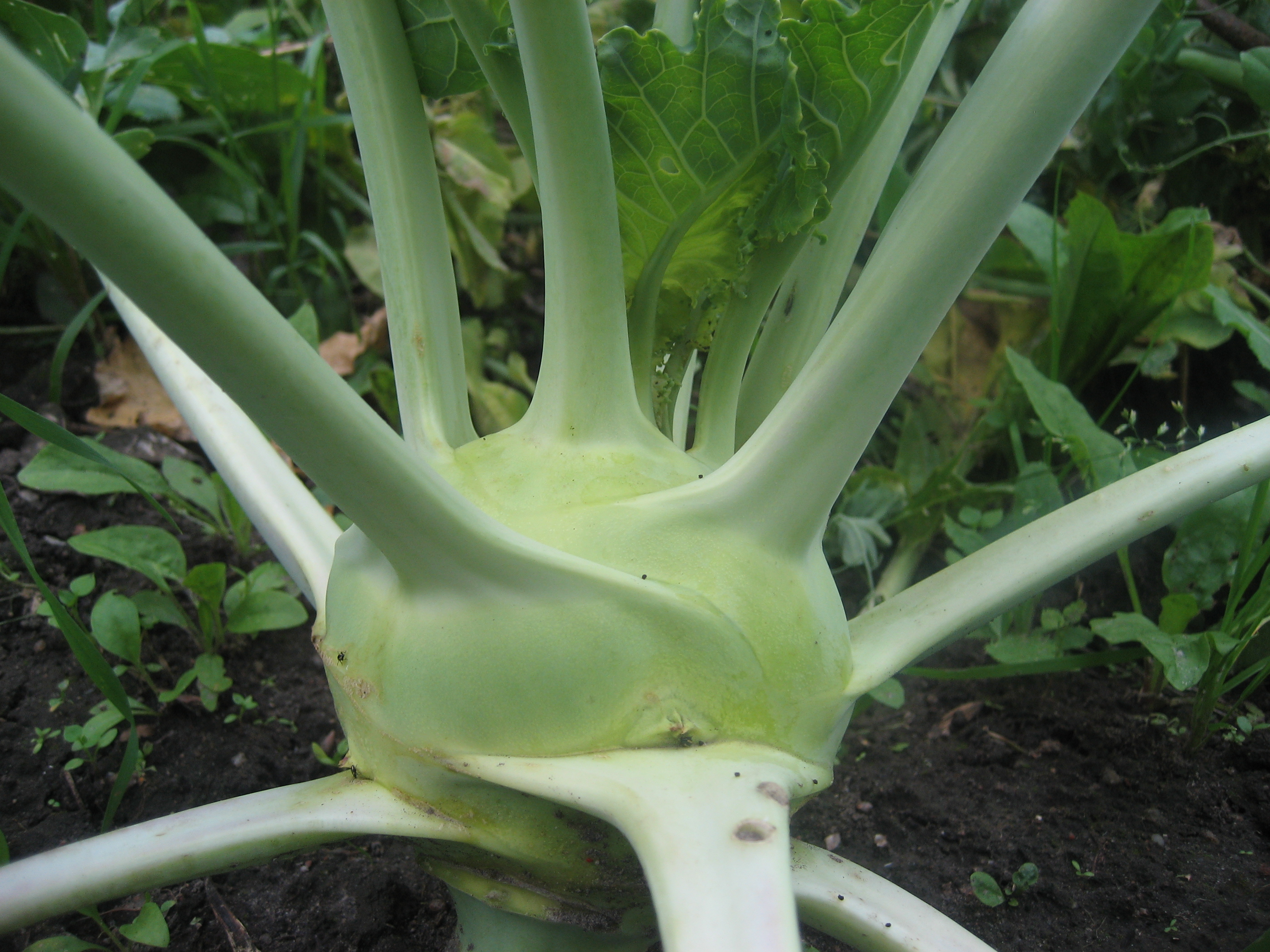 Kohlrabi